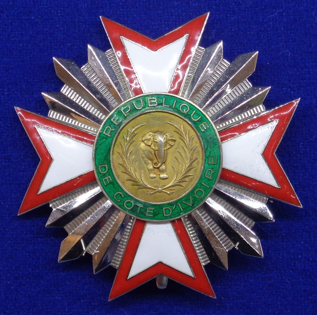 National Order of the Republic of the Ivory Coast, star of Grand Officer. Ivory Coast. The exhibition of the Tallinn Museum of Orders of Knighthood, Estonia.